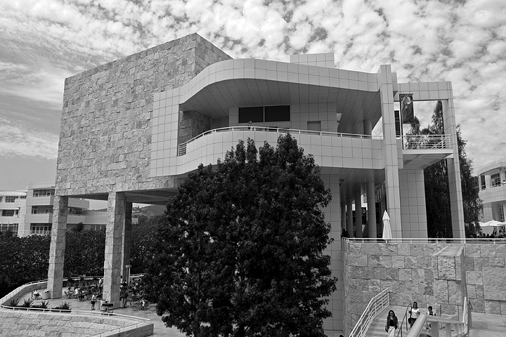 Getty Center, exhibition pavilion.